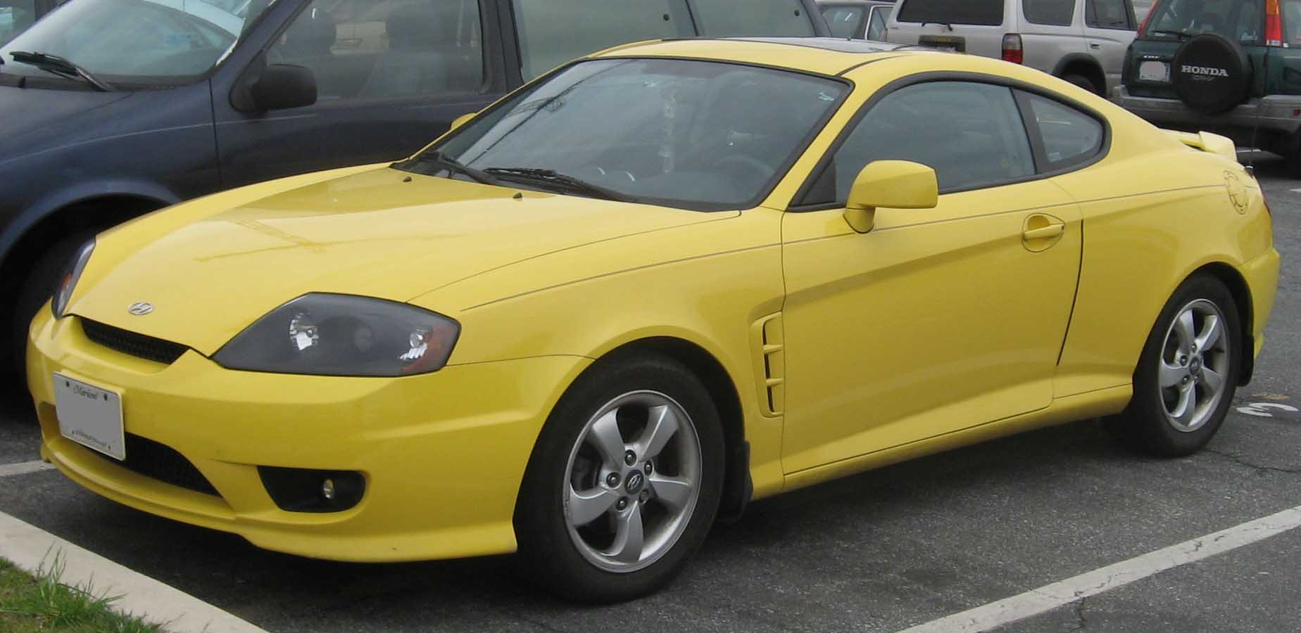 2006 Tiburon photographed in College Park, Maryland, USA.